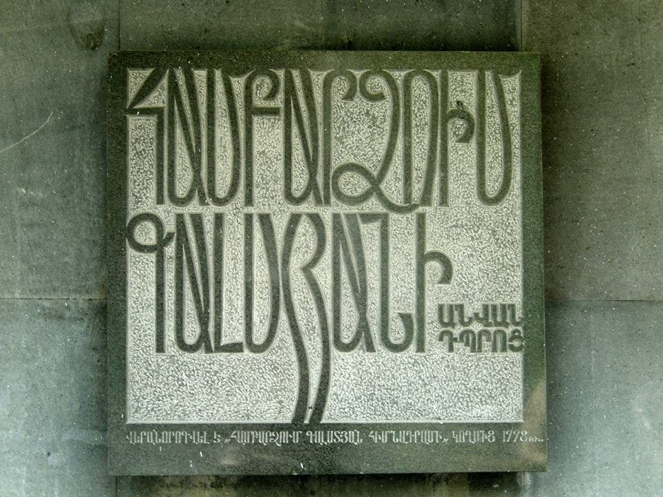 Hambardzum Galstyan School plaque